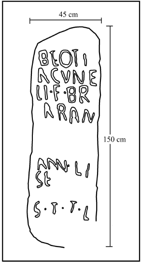 Epígrafe romano en la finca de "las Albejas"